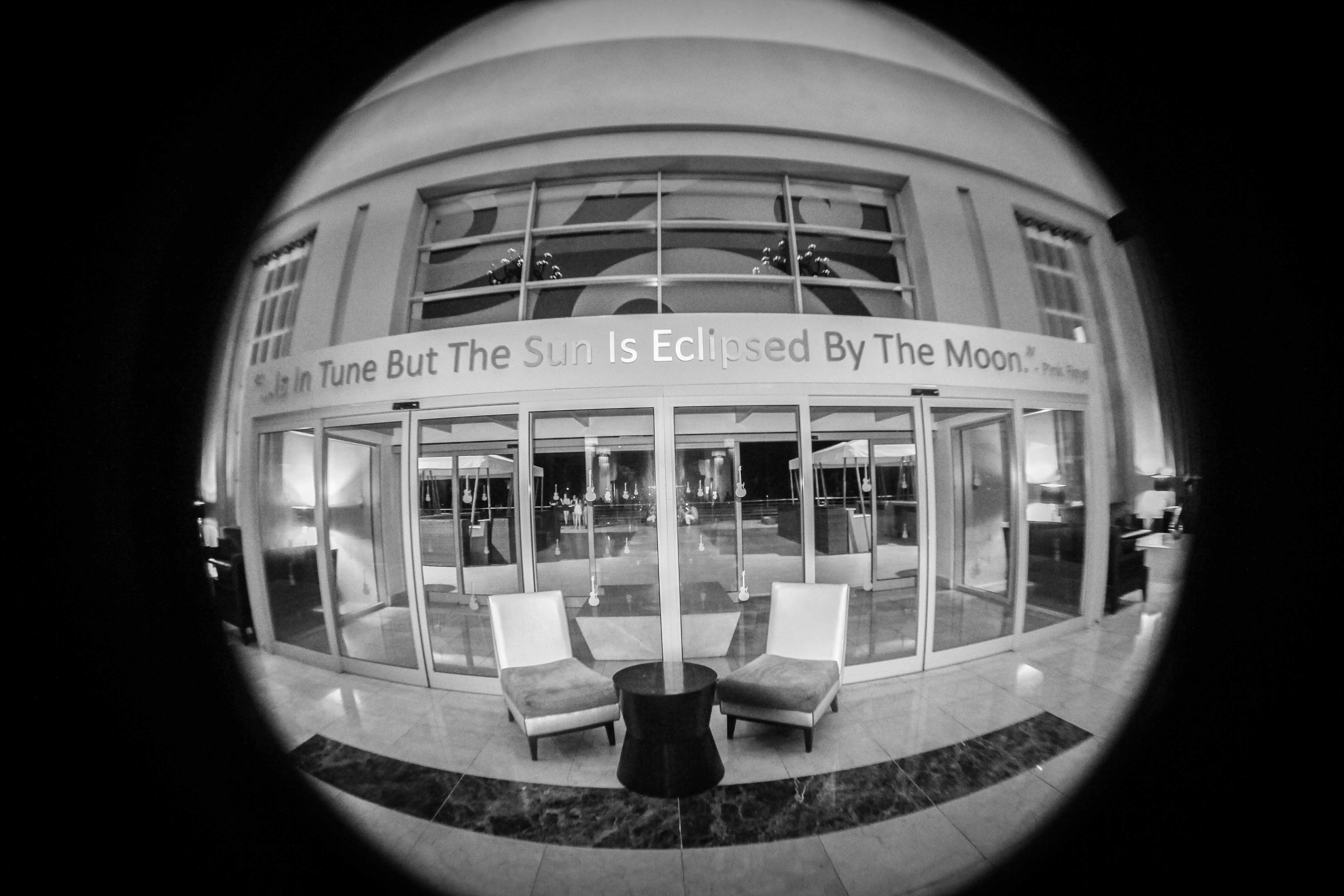 “... Is In Tune But The Sun Is Eclipsed By The Moon.” —Pink Floyd